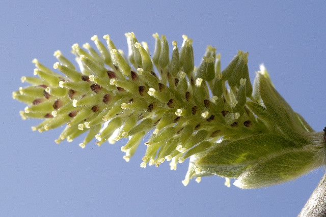 Salix cinerea from Commanster, Belgian High Ardennes .